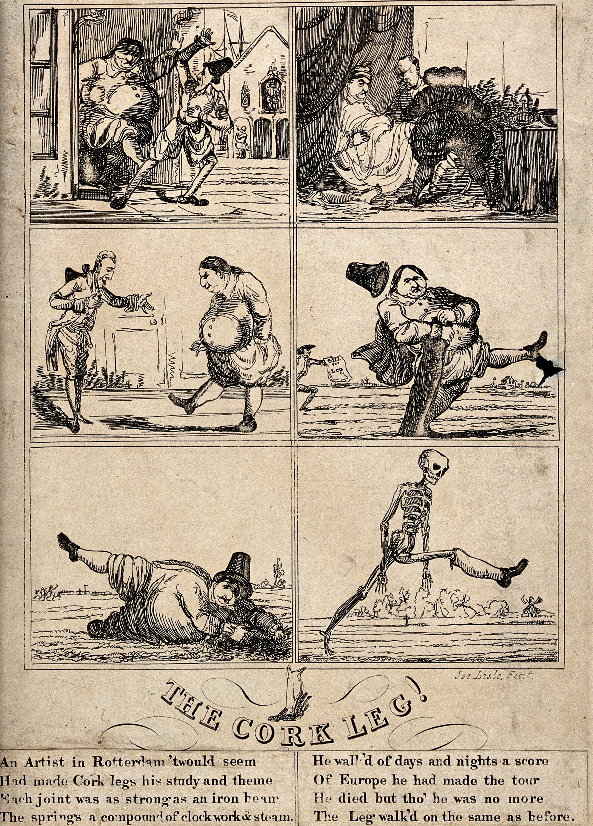 Six scenes narrating the fate of a cork leg, the invention of a Dutch artist. Etching by Joe Lisle. Iconographic Collections Keywords: Joeseph Lisle; Jonathan Blewitt